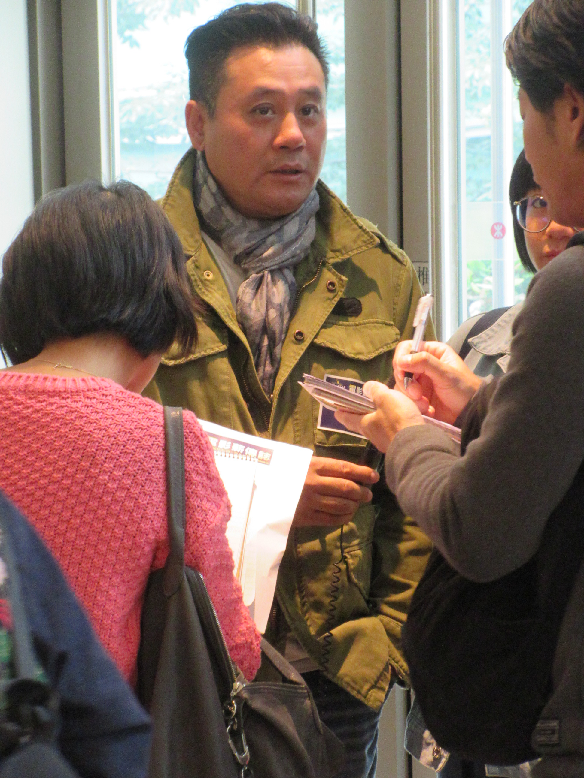 HK TKO PopCorn MCL Star Cinema Film Makers November 2017 IX1 麥長青 Evergreen Mak